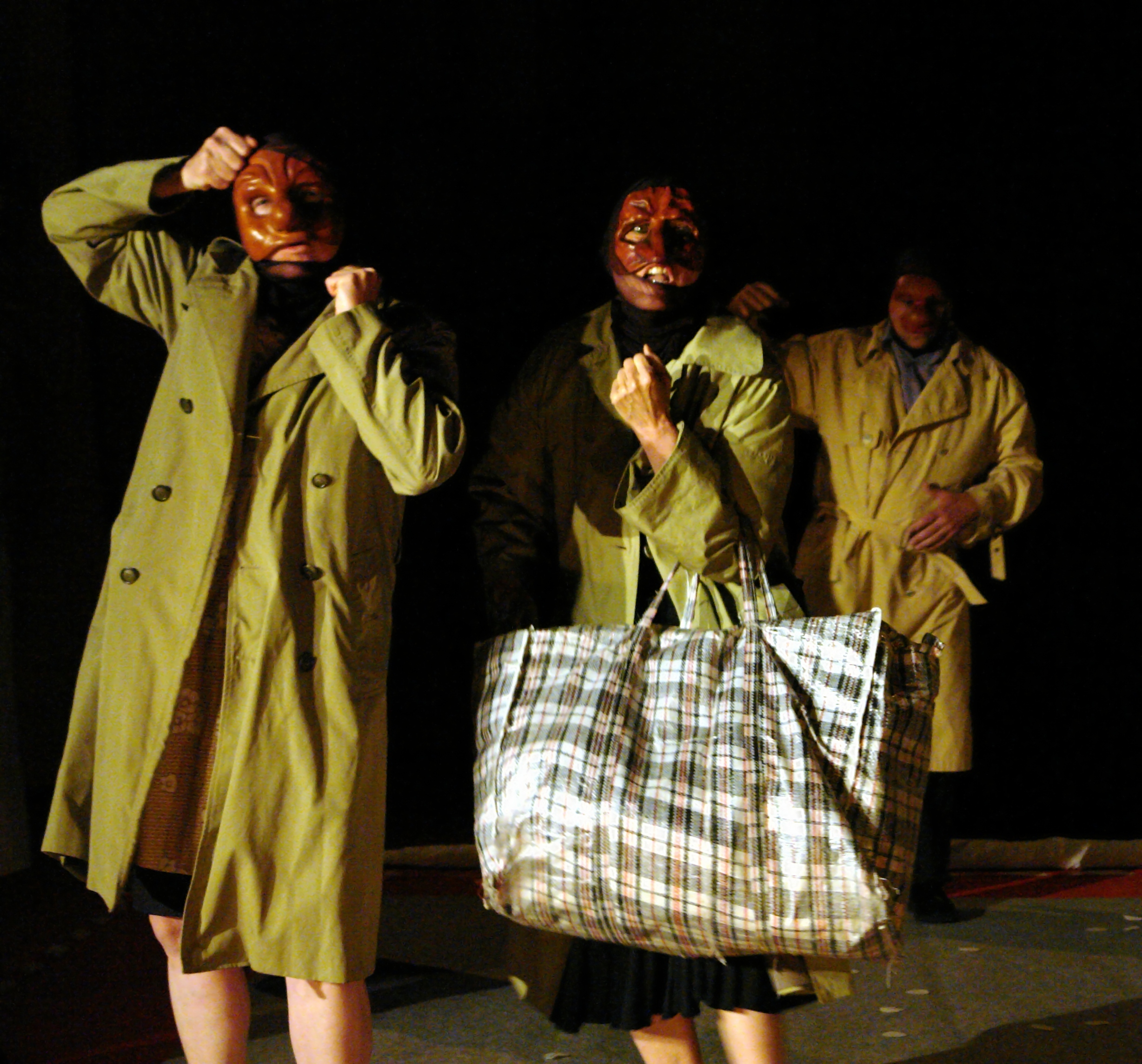 Play "Voices from Chernobyl: The Oral History of a Nuclear Disaster" from Svetlana Alexievitch, Geneva, April 25, 2009.